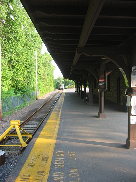 dinky.